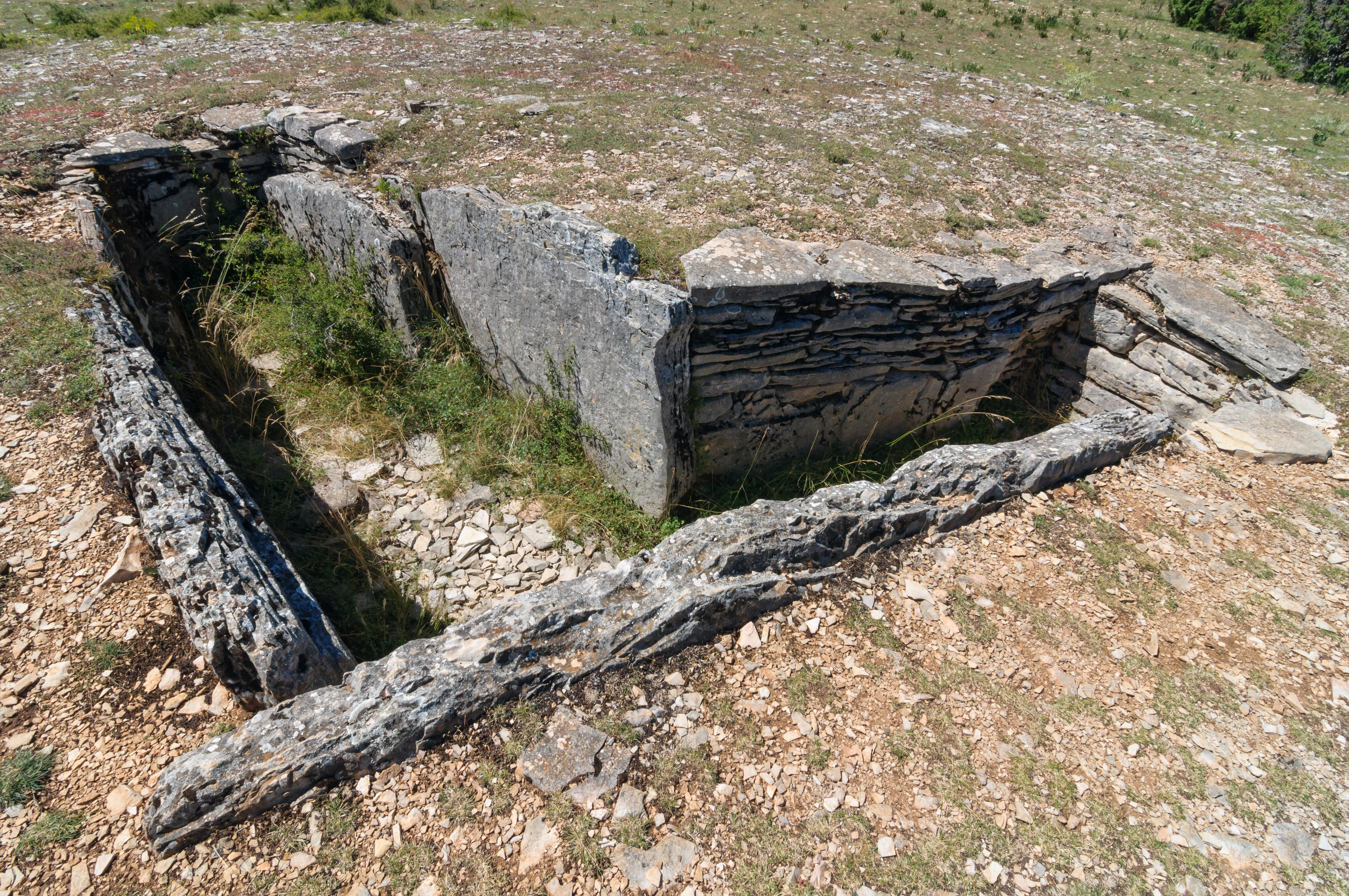 The "Aire des Trois-Seigneurs" dolmen on Causse de Sauveterre, Lozère, France